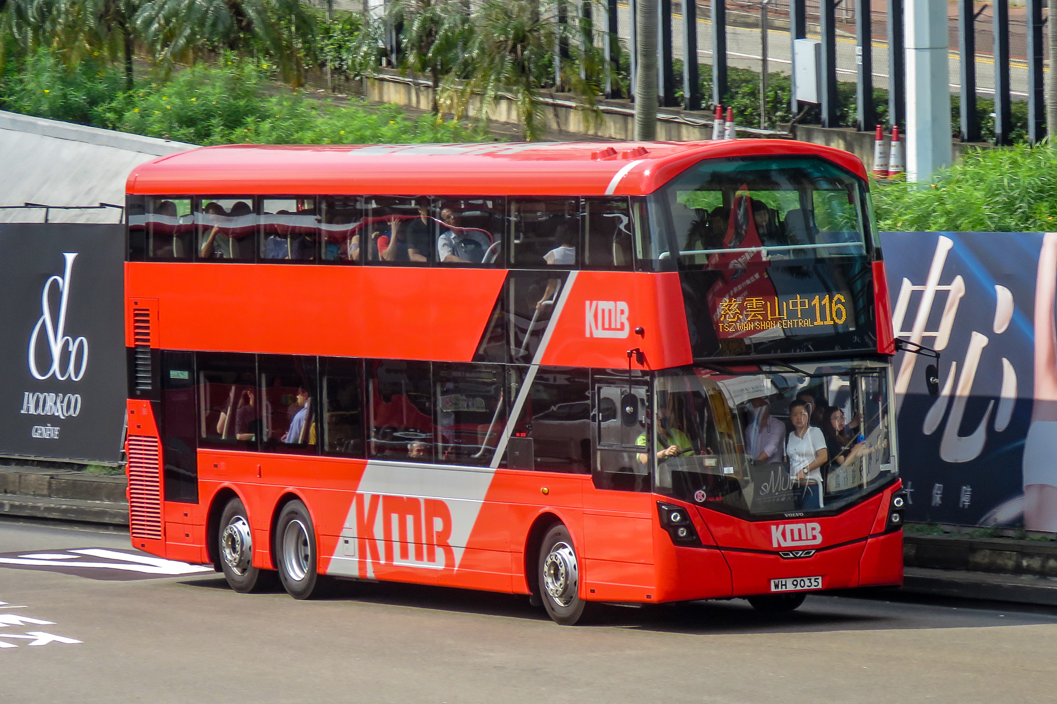 Black head on September... by the way, 19-9-9.